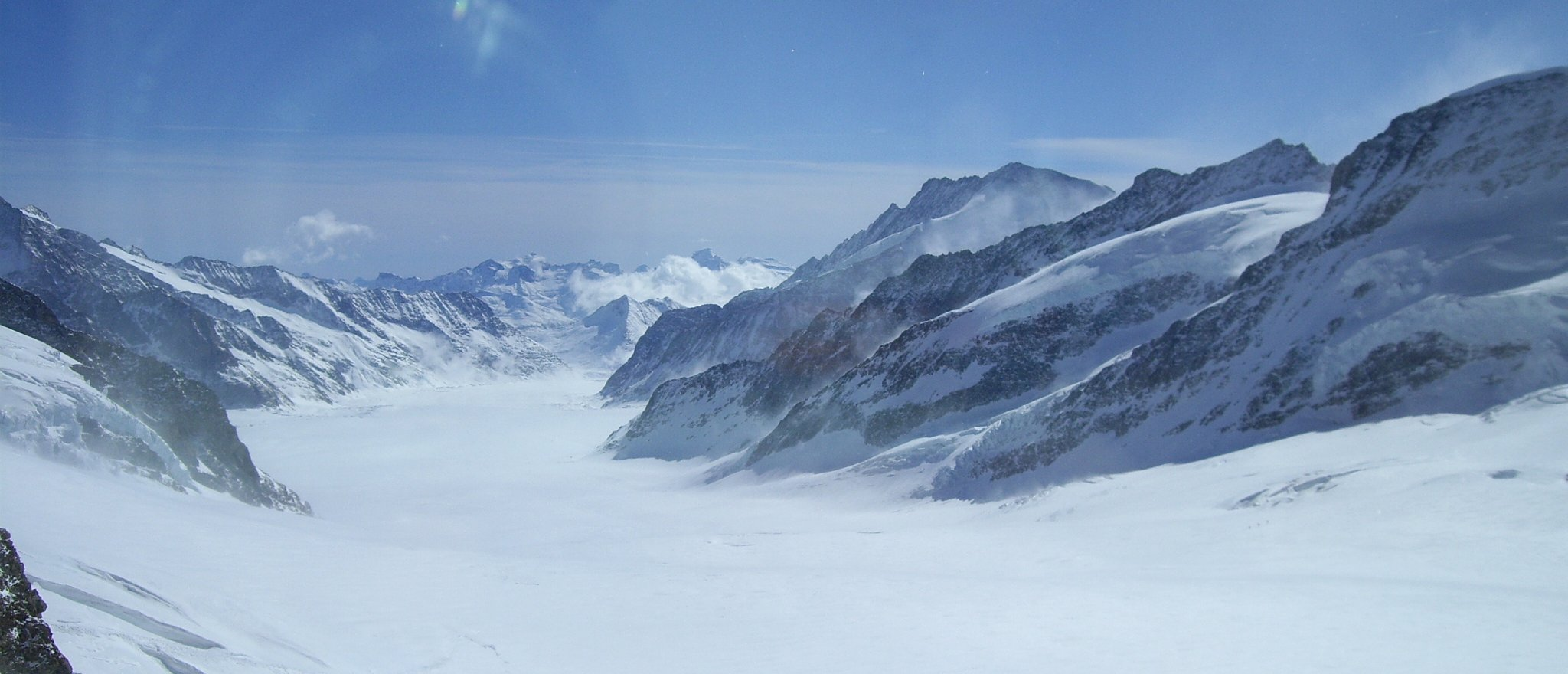 View across Aletsch glacier as seen from 'Top of Europe facility', Jungfraujoch